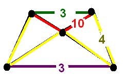 Runcitruncated_120-cell vertex figure